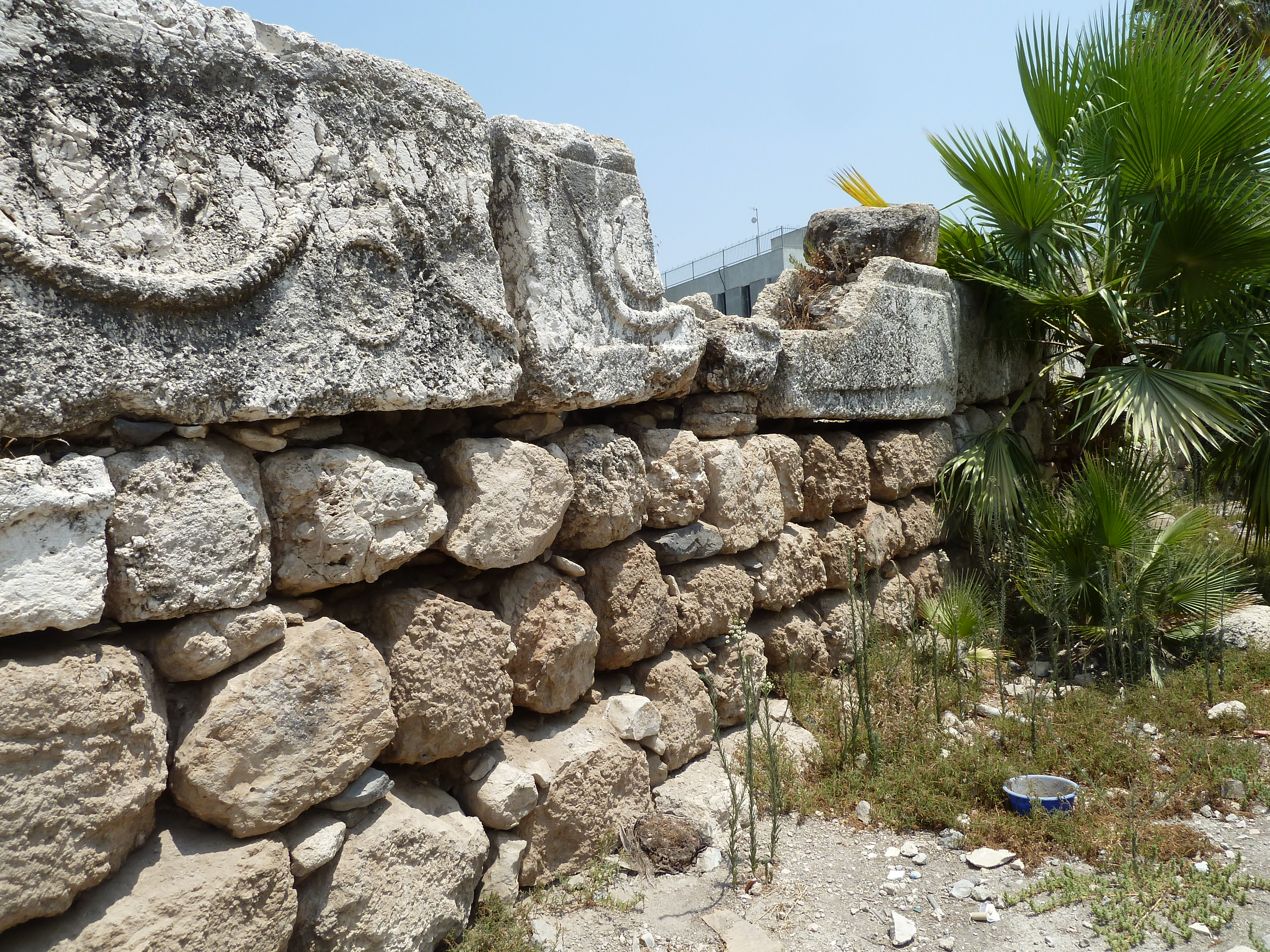 Afula Crusader fortress, Afula, Israel This image was taken as part of the Elef Millim project trip to the town of Afula in the Jezreel Valley, which was held on Friday, 27th July 2012. To view all images uploaded as part of the Elef Millim Project